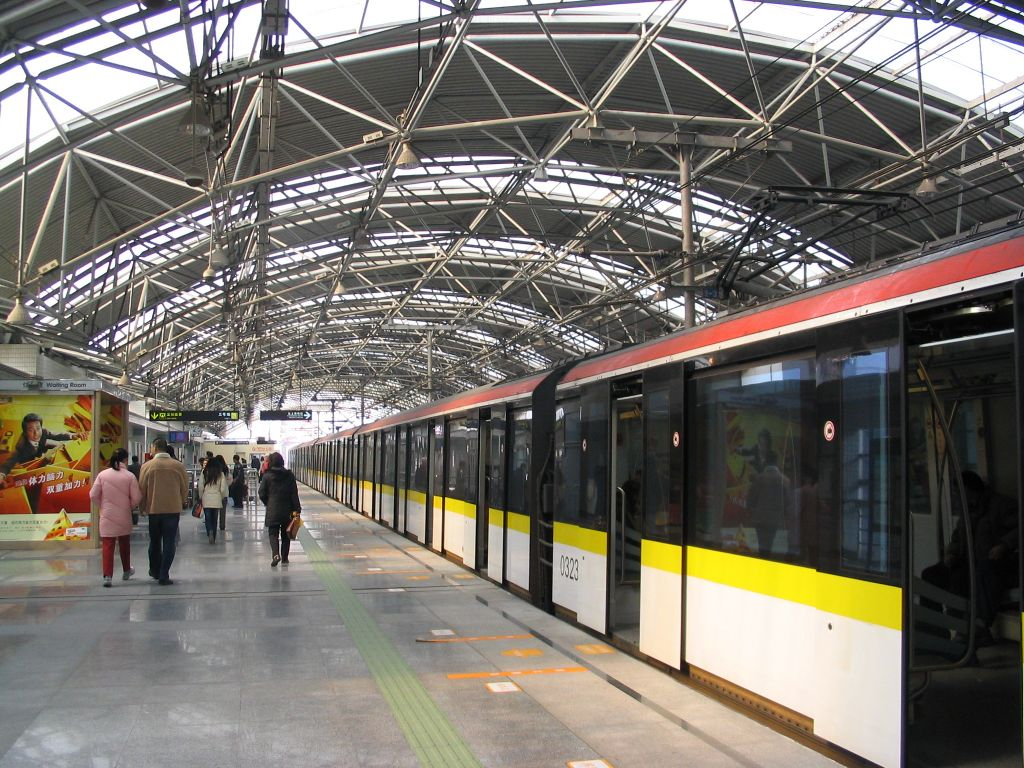 漕溪路站-3號線月台 Line 3 Platform of Caoxi Road Station